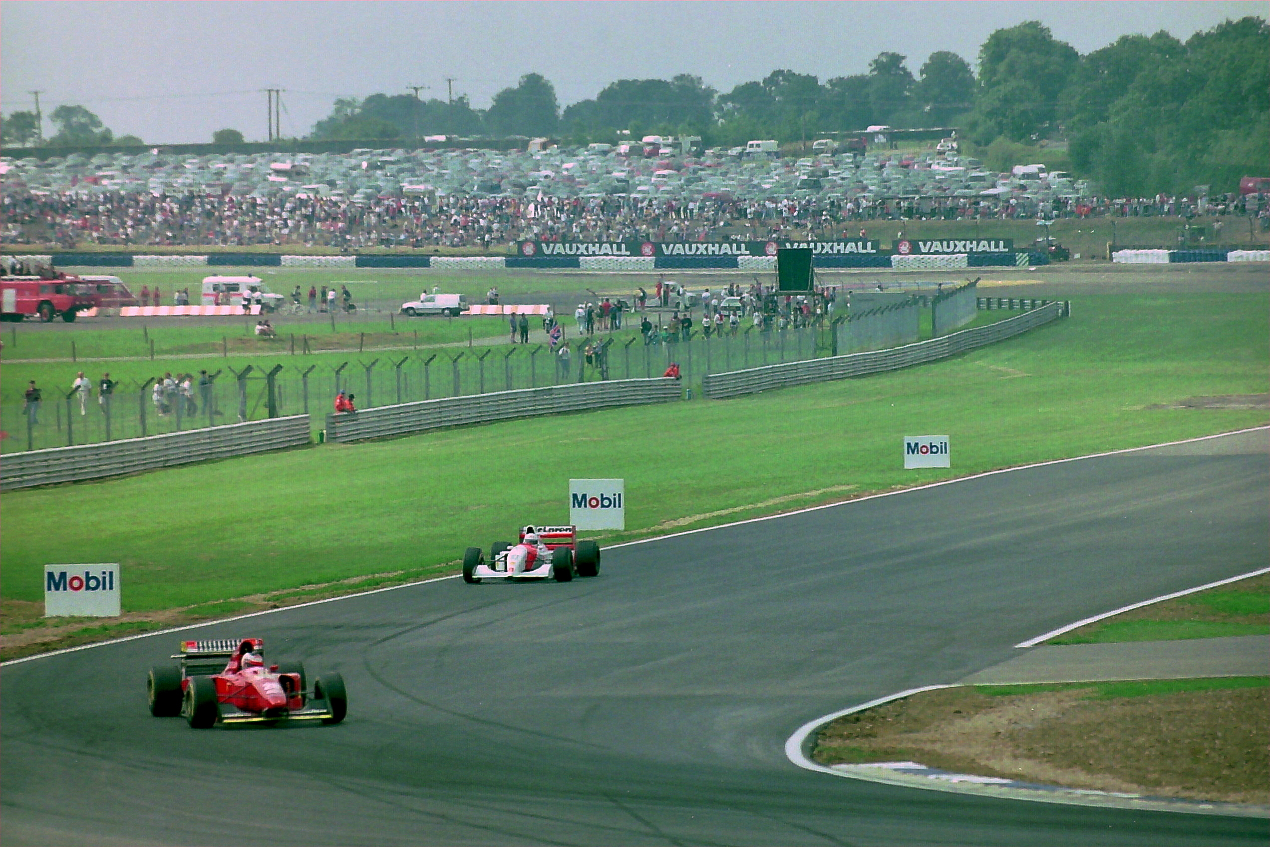 Gerhard Berger - Ferrari 412T1B leads Martin Brundle - Mclaren MP4-9 during practice at the 1994 British Grand Prix